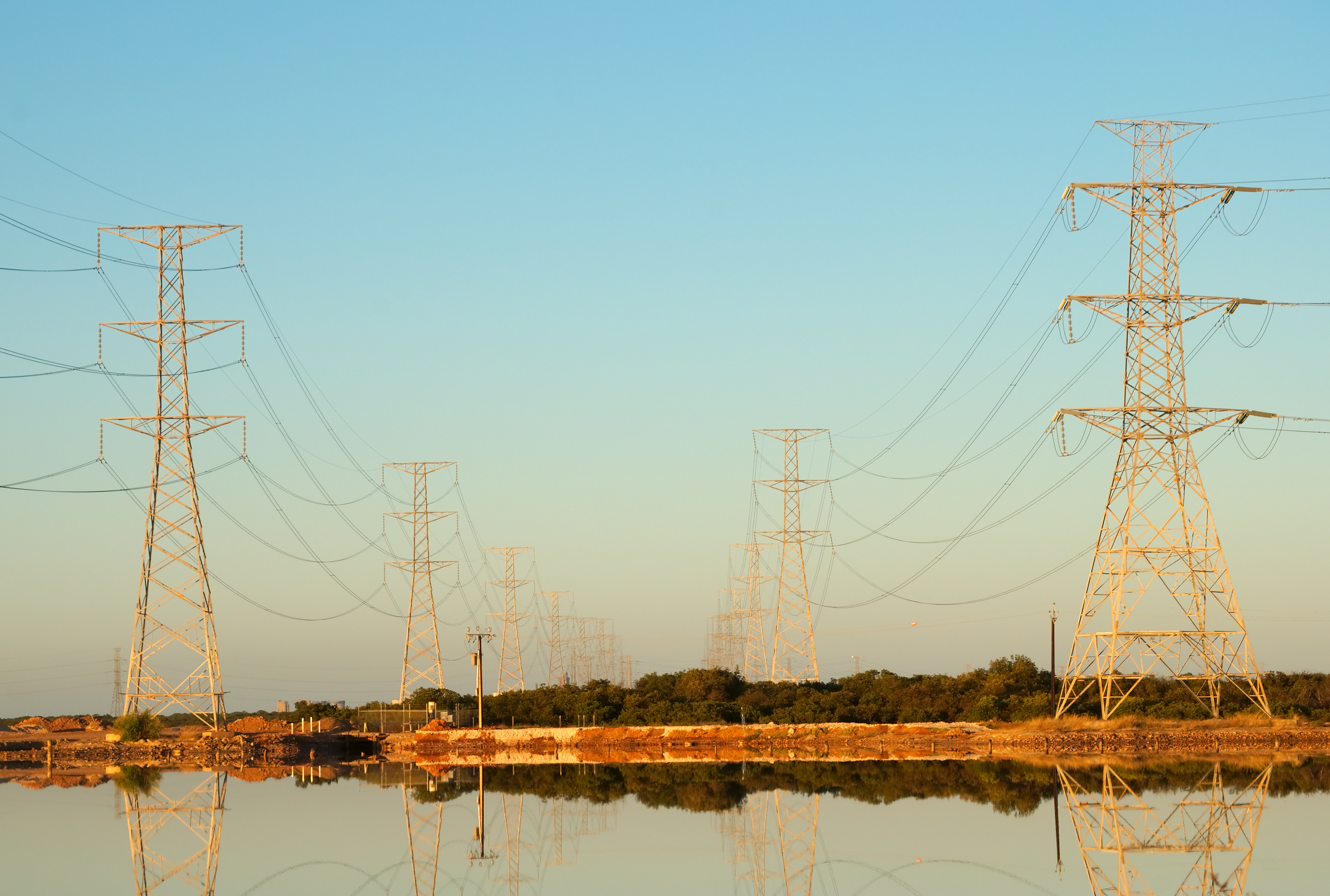 High Voltage Power lit by dawn light, with a reflection in a salt settlement pond. Globe Derby, South Australia